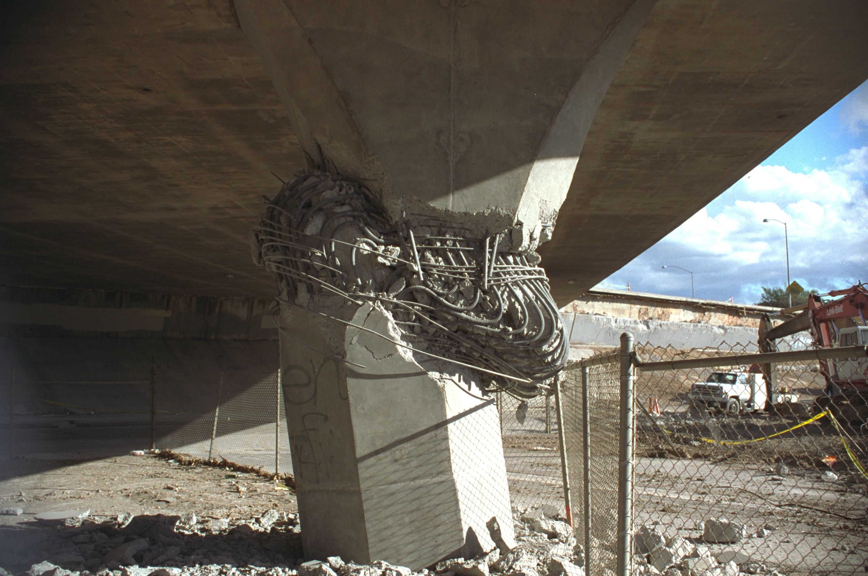 Northridge Earthquake, CA, January 17, 1994 -? Many roads, including bridges and elevated highways were damaged by the 6.7 magnitude earthquake. Approximately 114,000 residential and commercial structures were damaged and 72 deaths were attributed to the earthquake. Damage costs were estimated at $25 billion. FEMA News Photo